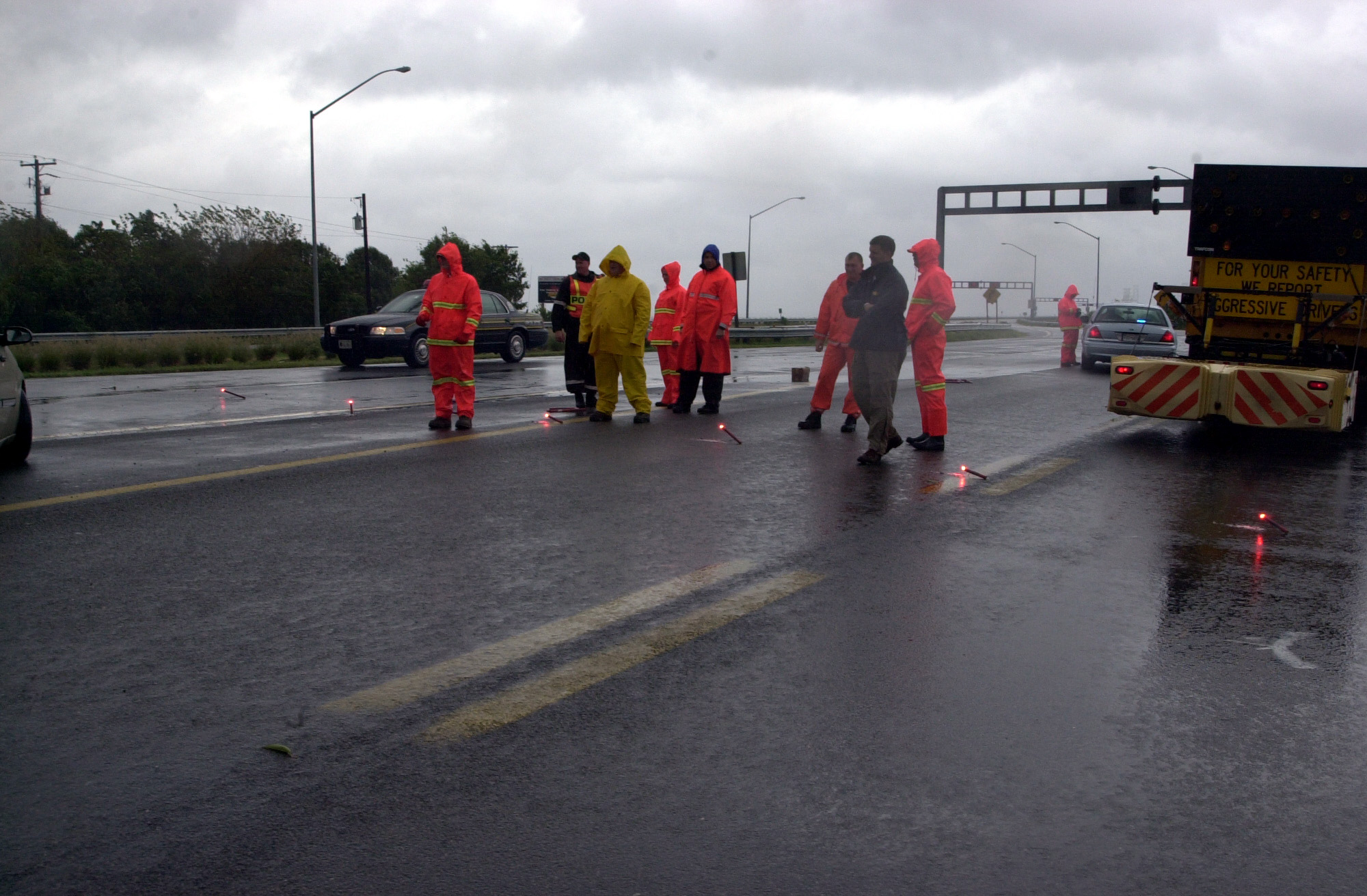 "Annapolis, MD, 9/18/03 -- As Hurricane Isabel bears down here, officials are forced to shut down the Chesapeake Bay Bridge, due to winds speeds in excess of 55 mph. Photo by: Liz Roll/FEMA News Photo"